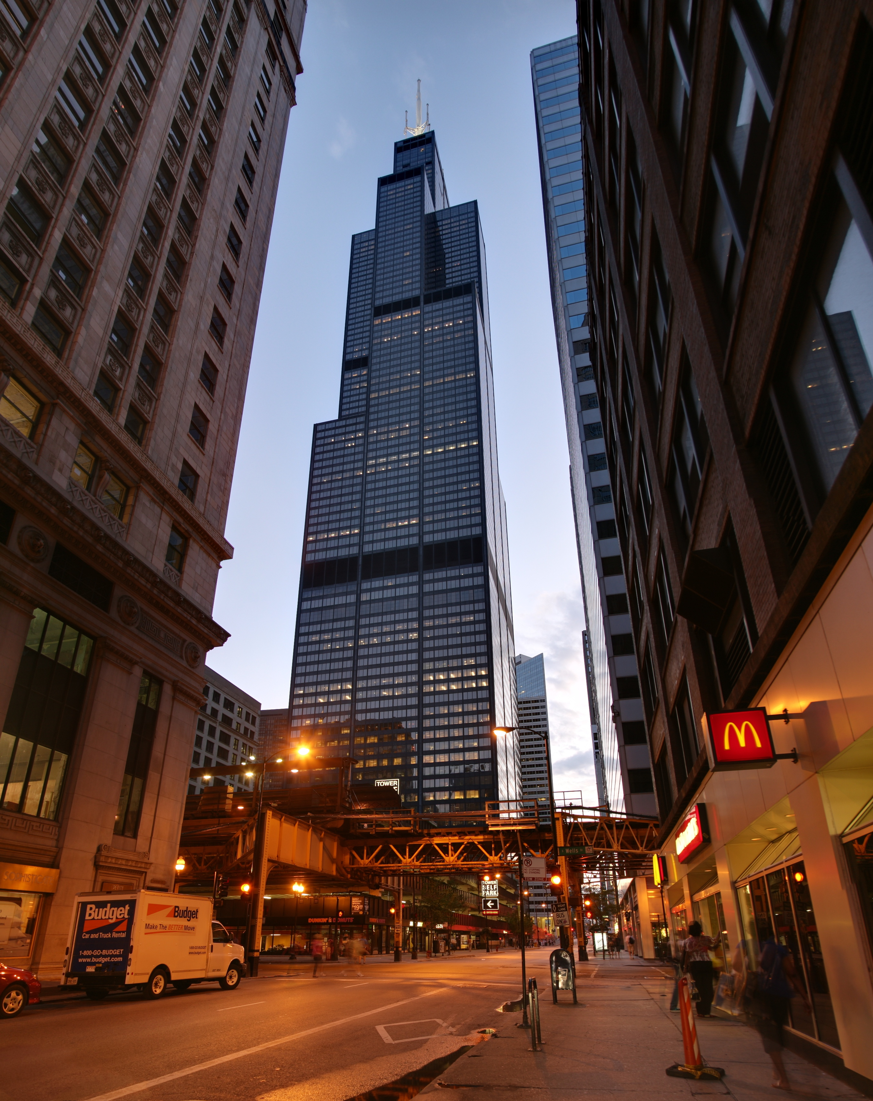 Willis Tower at night in Chicago from the corner of adams and Wells This image was created with Hugin.